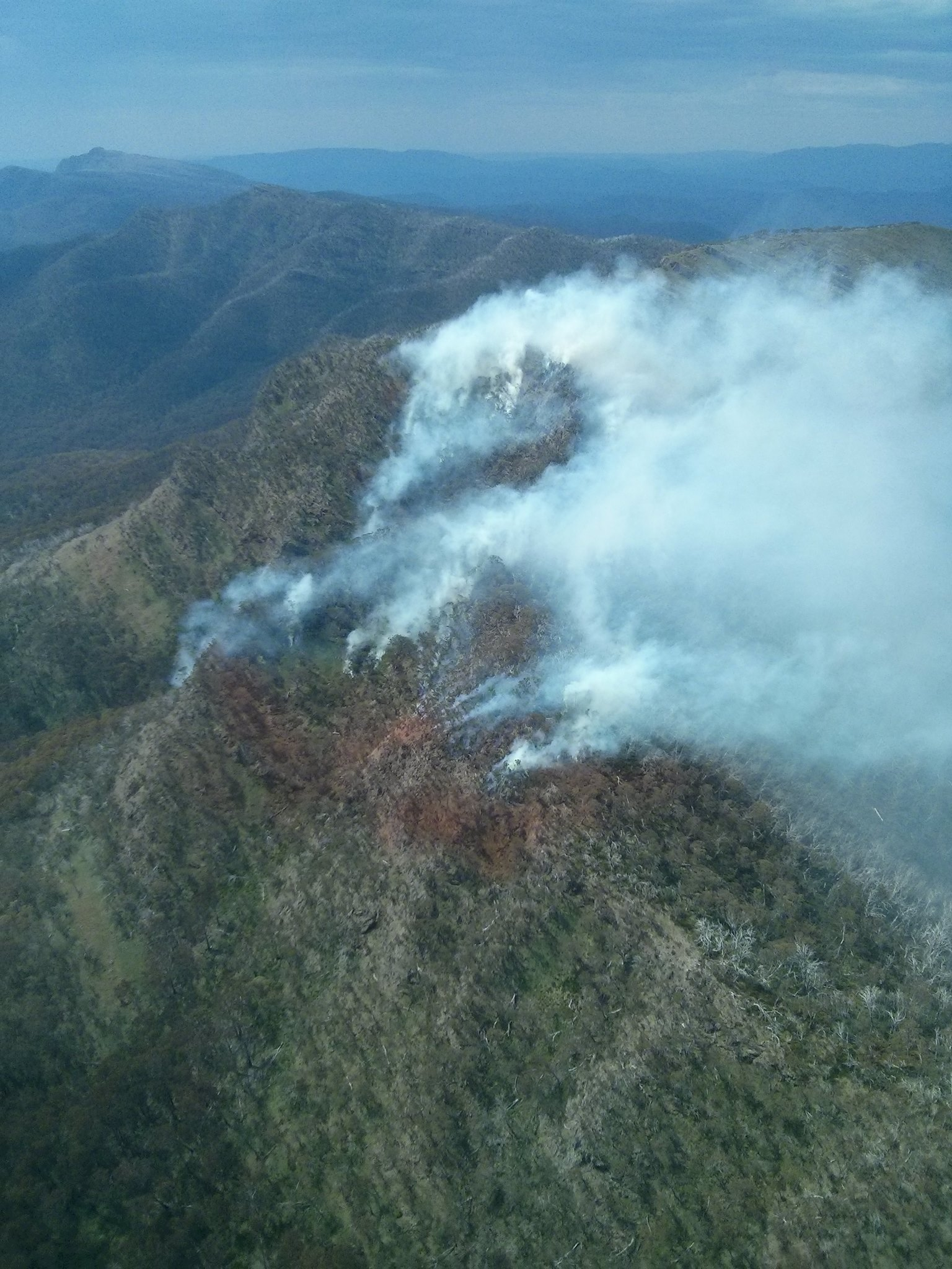 Firebombing at Mt Buggery- Terrible Hollow on the edge of a wilderness area in the Victorian Alpine National Park. Lightening strike overnight on 19 December started fire. Phoscheck retardant line below fire to contain fire. Firebombing base at nearby Mt Buller.